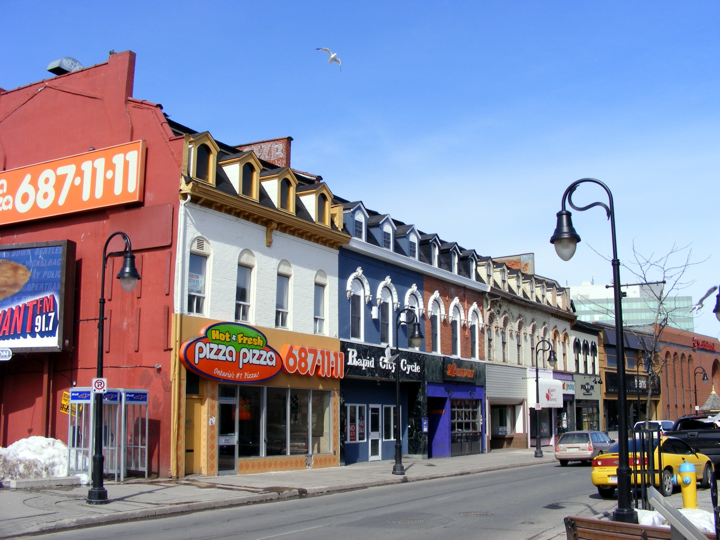 Shops on St. Paul Street, downtown of St. Catharines, Ontario. Date: March 17, 2008 Source: Photo by me, User:Balcer.